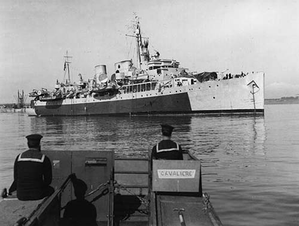 RCN Photo